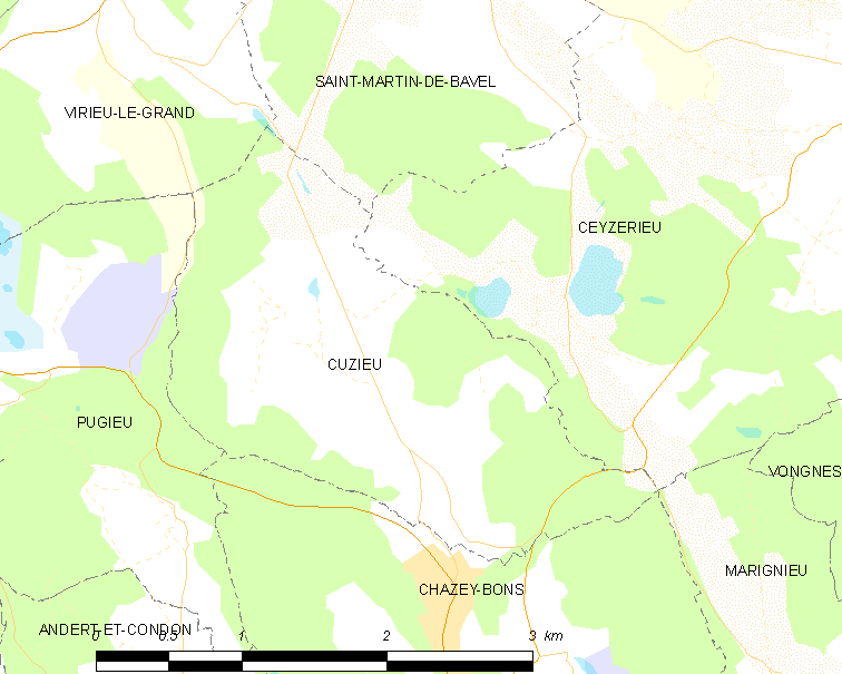 Map of French commune: Cuzieu Map commune FR insee code 01141.png